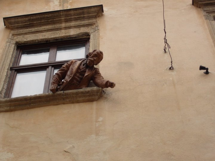 Part of monument of Ignacy Łukaszewicz and Jan Zeh (Łukaszewicz is looking towards Zeh sitting at the table)